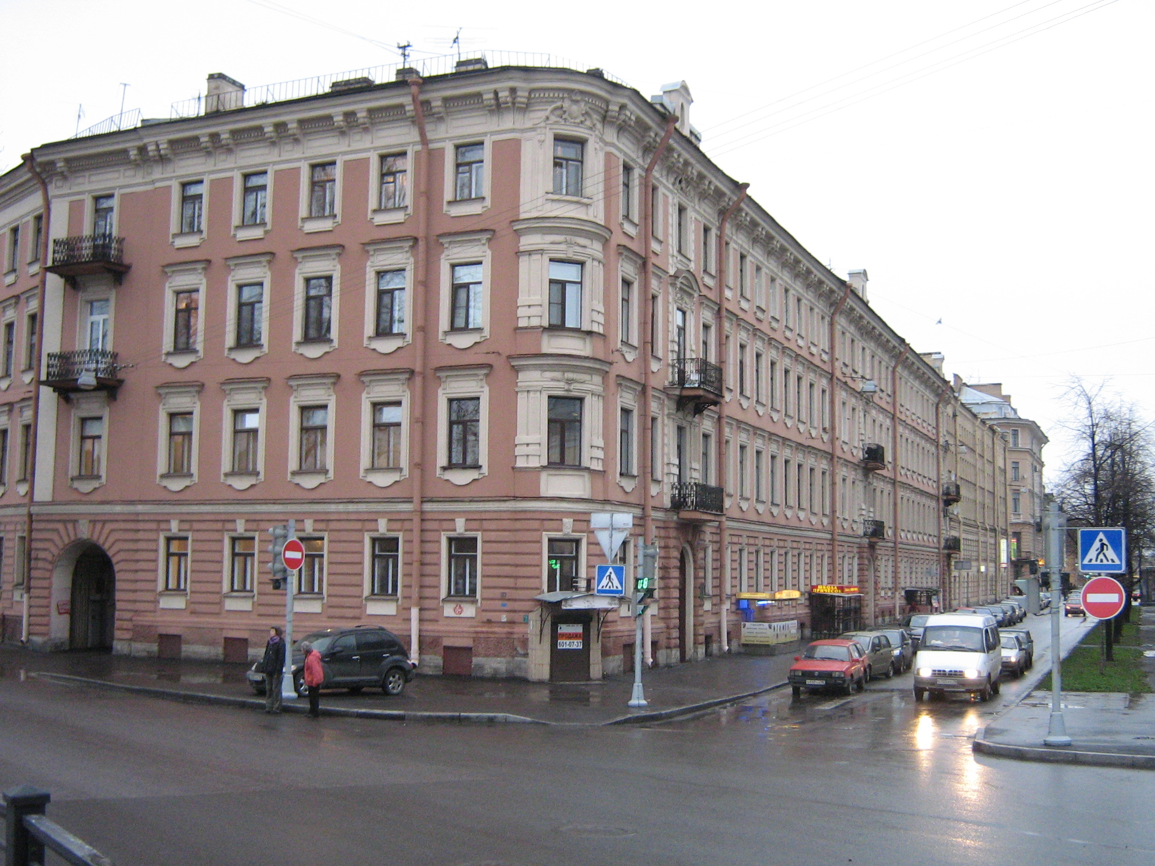 Saint Petersburg (Russia), Admiralteysky District